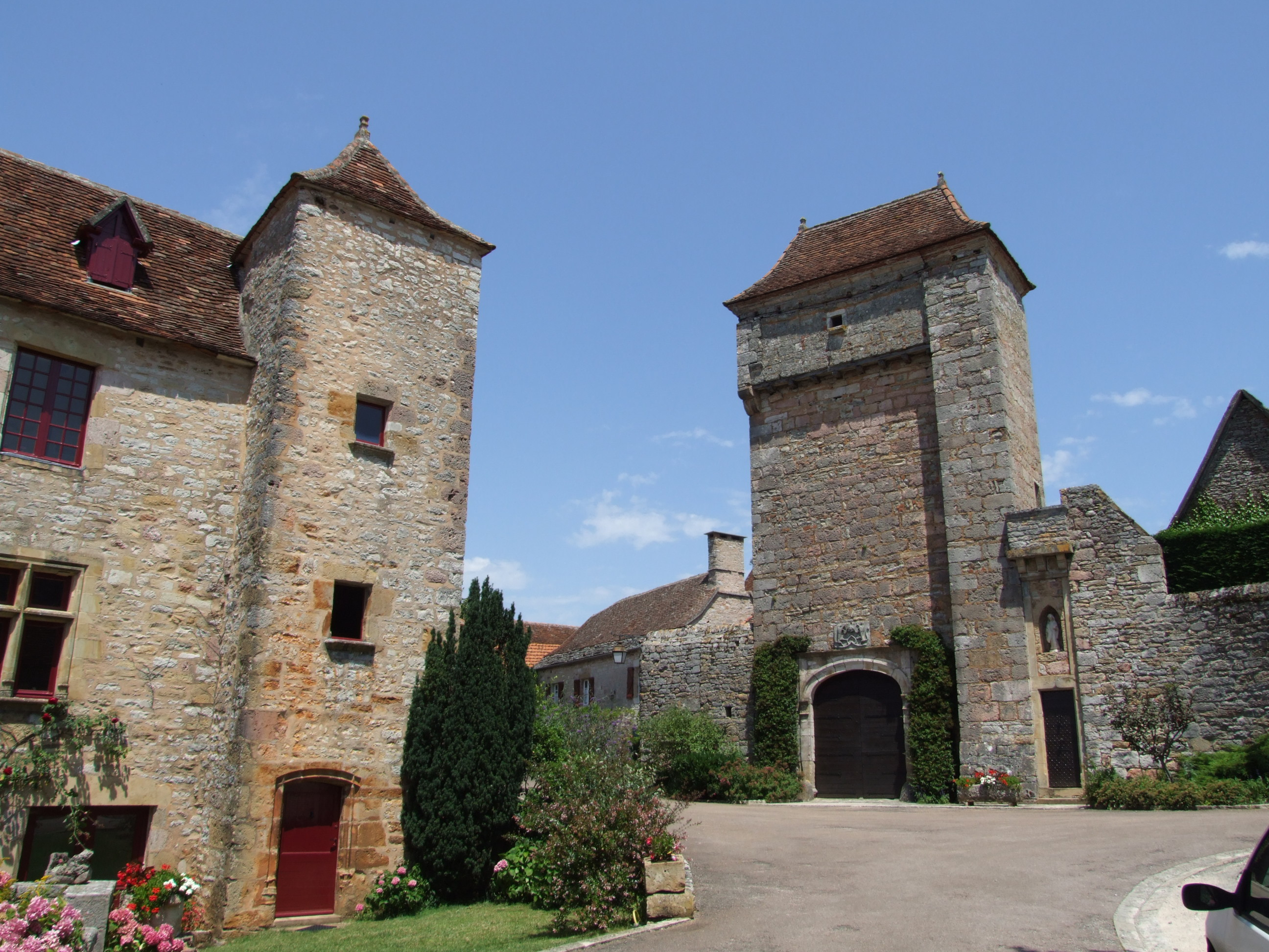 Loubressac, Lot, FRANCE